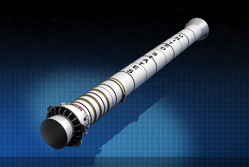 Artist Concept: Ares I First Stage